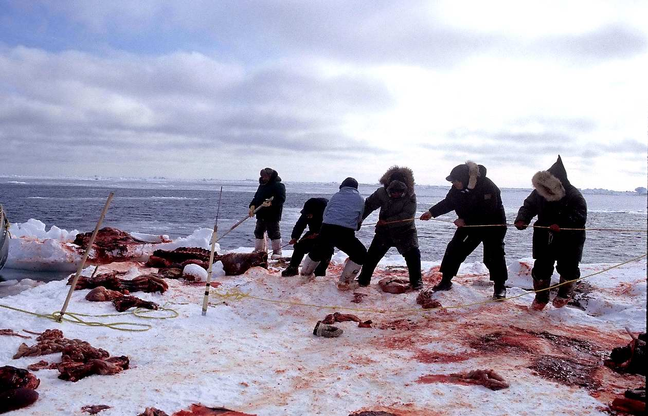 Atlantic walrus (Odobenus rosmarus rosmarus), hunt on ice floe in Hudson Strait near Cape Dorset (Nunavut, Canada) II